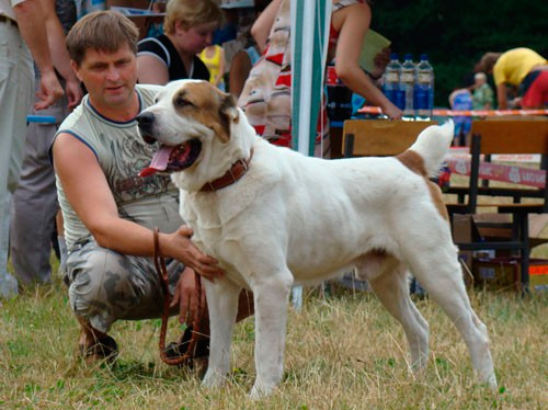 Central Asian Shepherd Dog the Lasker Babak Nikopol. Champion of Ukraine, Ukrainian Champion Club, Grand Champion of Ukrainian club of breed